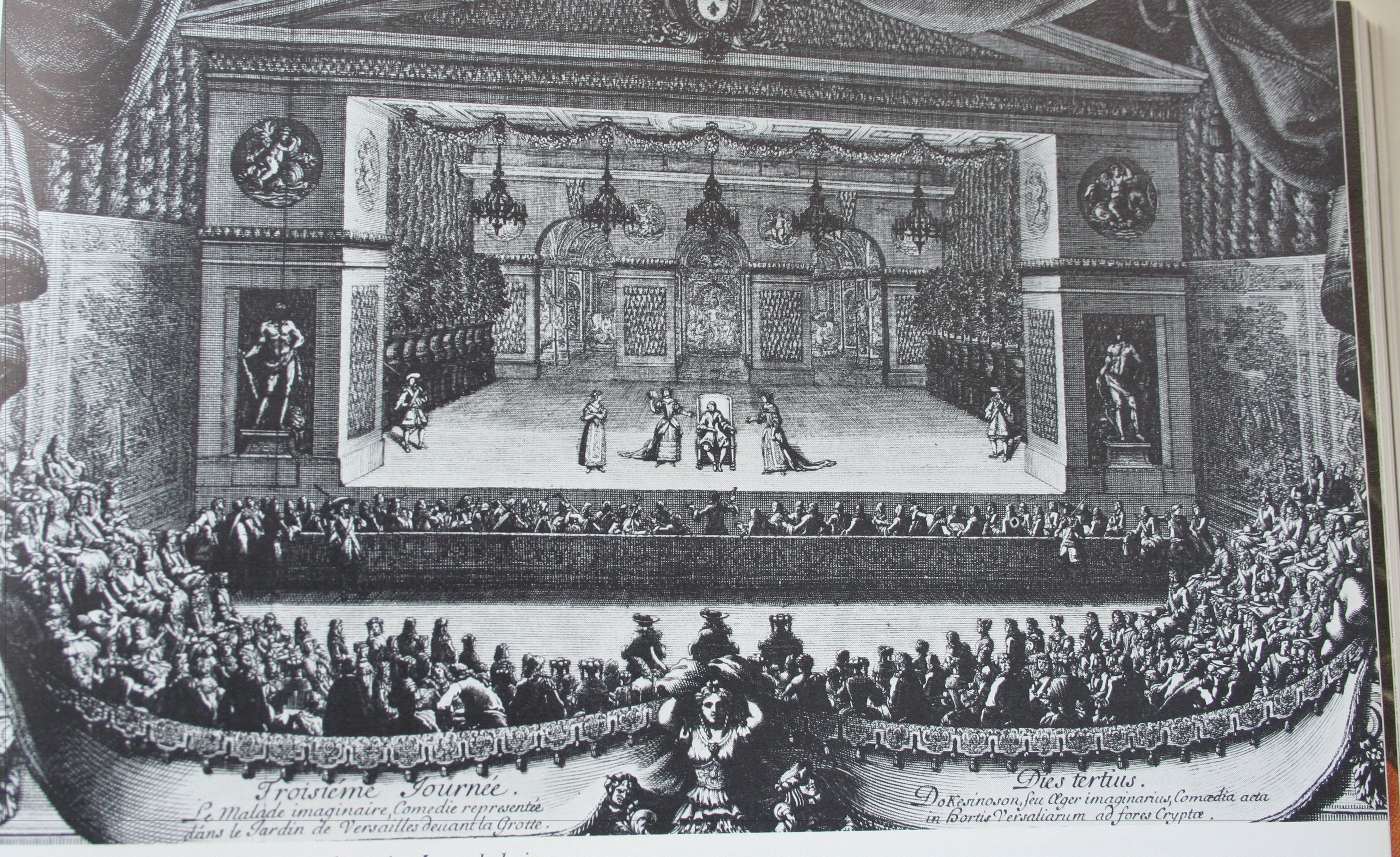 Court premiere of Molière's play Le Malade imaginaire, performed in the Grotte de Thétis of the garden of Versailles, probably on 18 July 1674, the Troisième Journée of the grand divertissements held at Versailles in celebration of the annexation of Franche-Comté